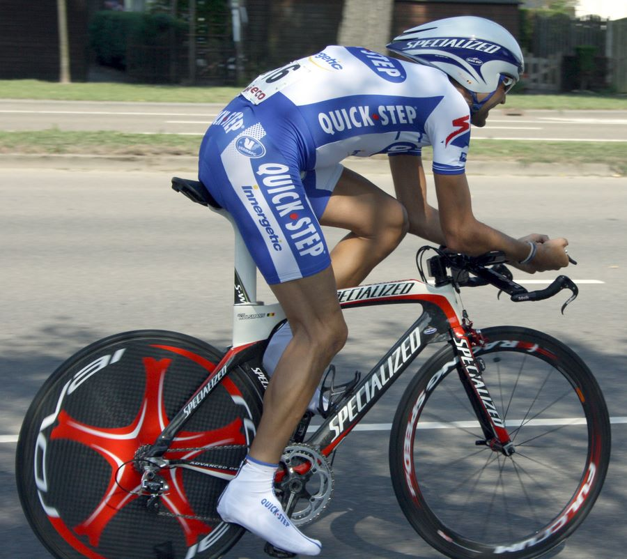 Kevin Hulsmans at the 2009 Eneco Tour prologue